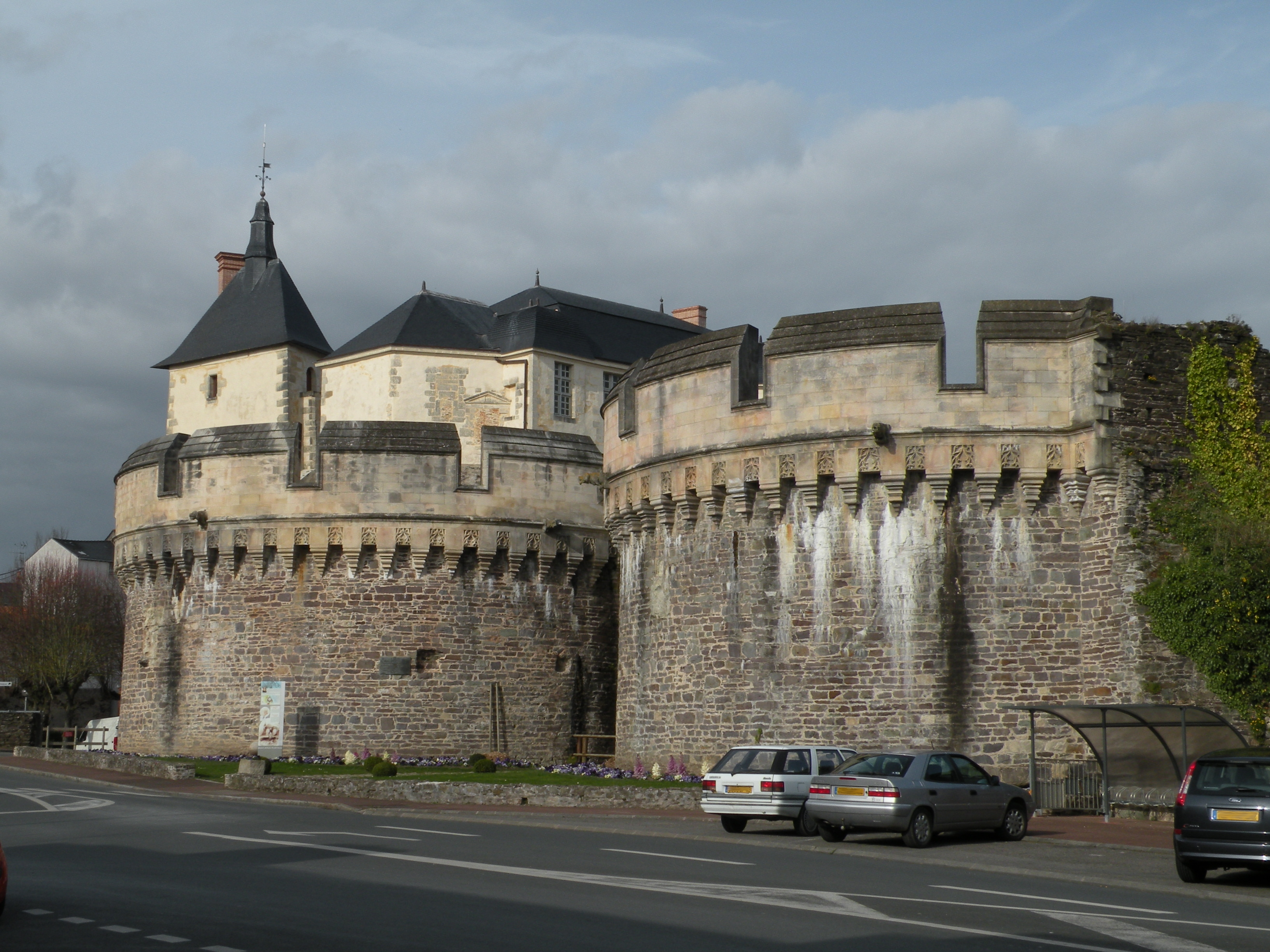 Castle of Ancenis